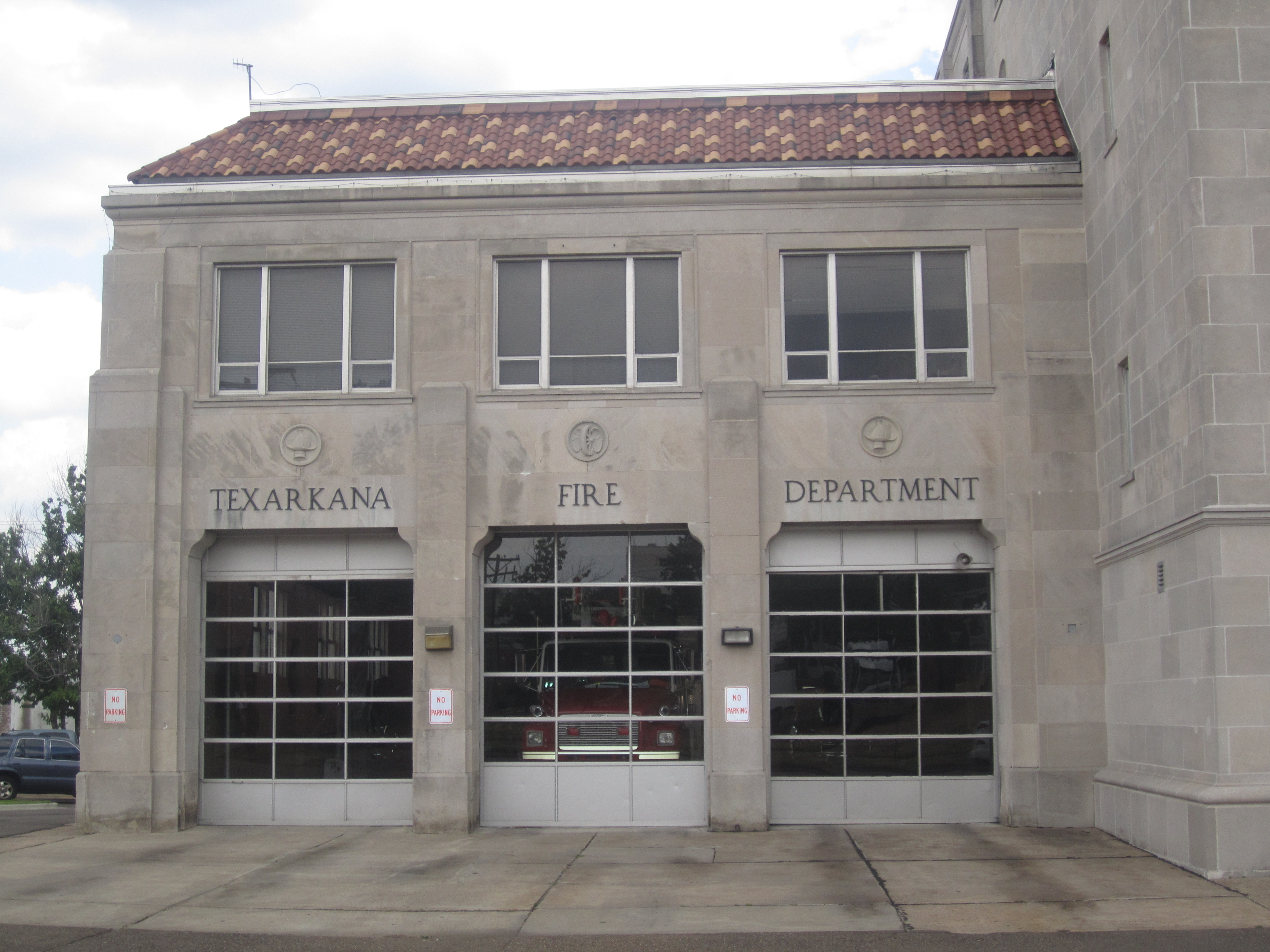 I took photo on June 9, 2012, with Canon camera, at Texarkana, AR, Fire Department headquarters.Billy Hathorn (talk) 22:14, 28 June 2012 (UTC)